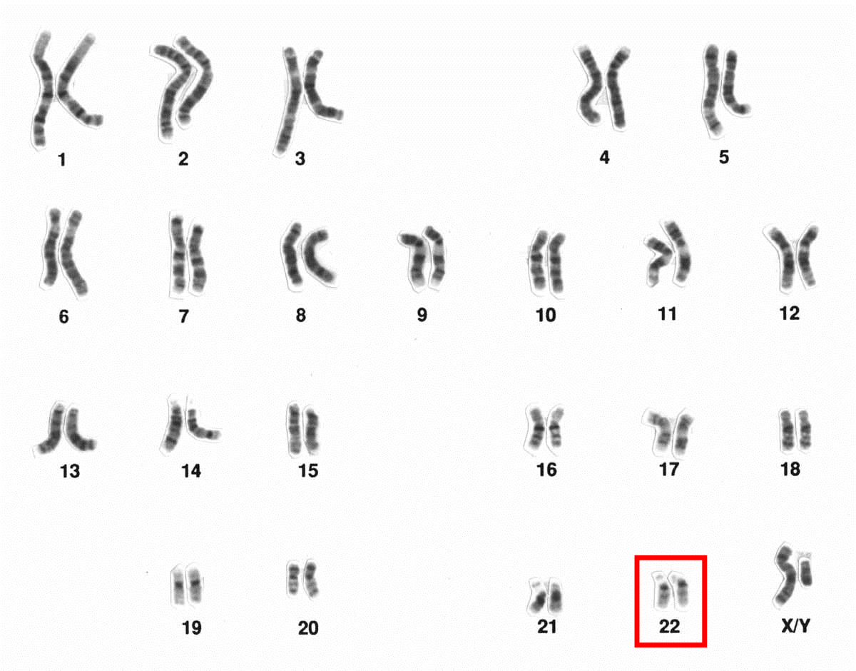 Human male Karyotype after G-banding. Chromosome 22 highlighted